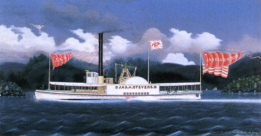 "James A. Stevens," oil on canvas, by the American painter James Bard. 30" x 50.12". Courtesy of the Mariners Museum.